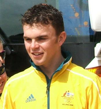 Jack Bobridge at the 2008 Olympic homecoming parade in Adelaide